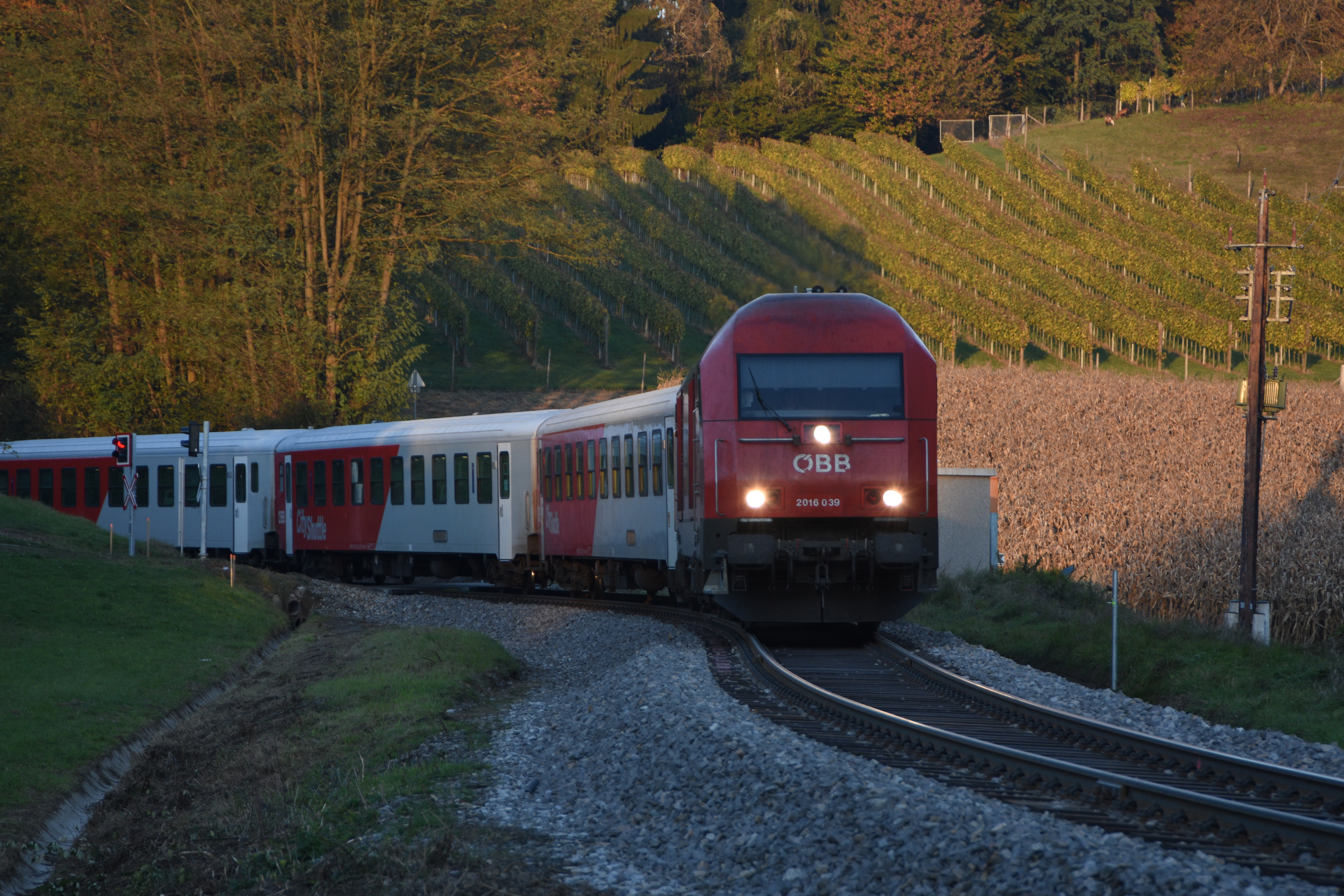 Thermenbahn